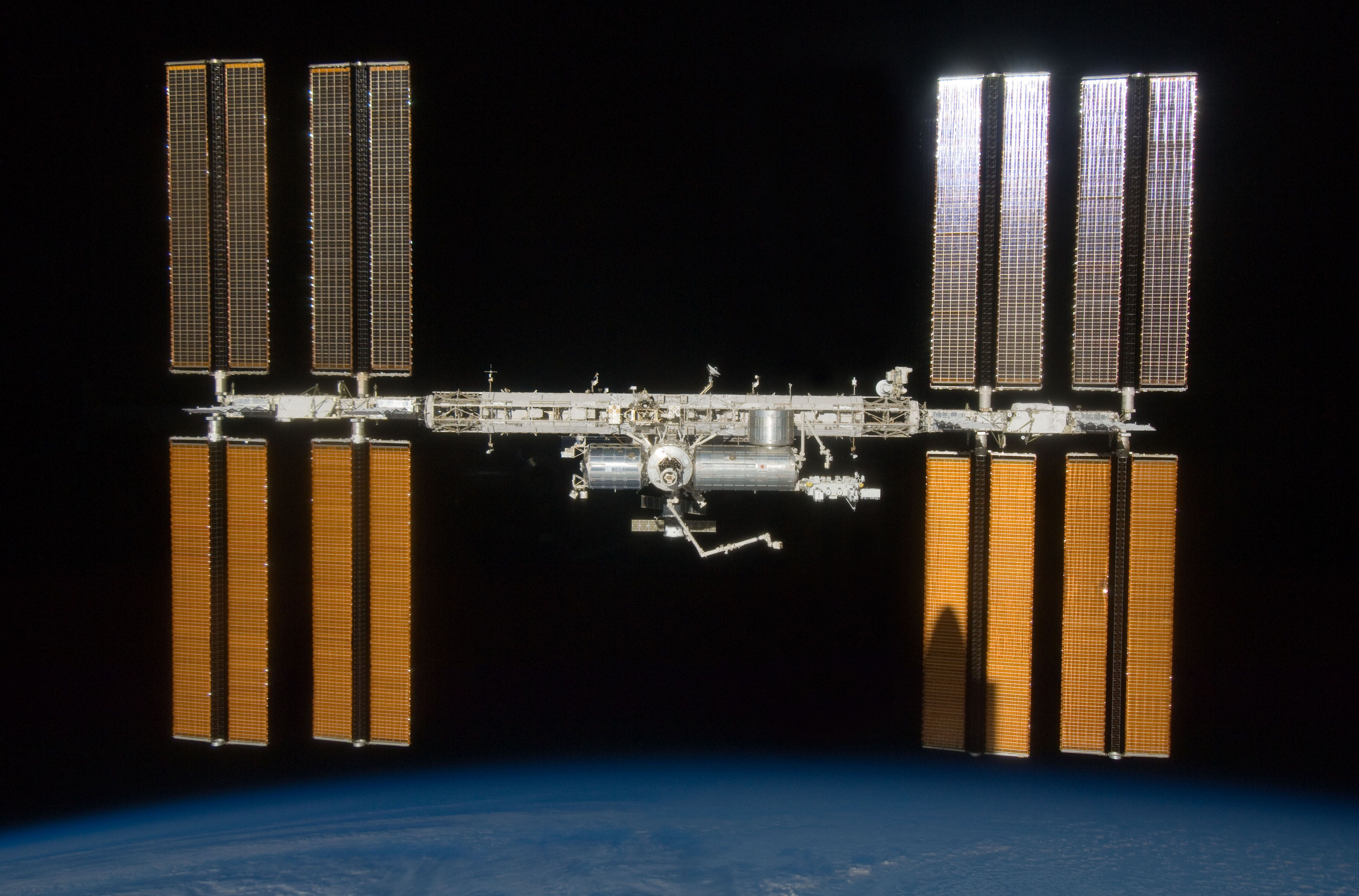 Backdropped by the blackness of space, the International Space Station is seen from Space Shuttle Endeavour as the two spacecraft begin their relative separation. Earlier the STS-127 and Expedition 20 crews concluded 11 days of cooperative work onboard the shuttle and station. Undocking of the two spacecraft occurred at 12:26 CDT on 28 July 2009. A partial shadow of Endeavour is visible on the solar array wing panels.